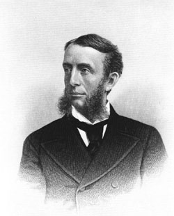 Official portrait of Andrew Dickson White for his position as the United States ambassador to Russia.